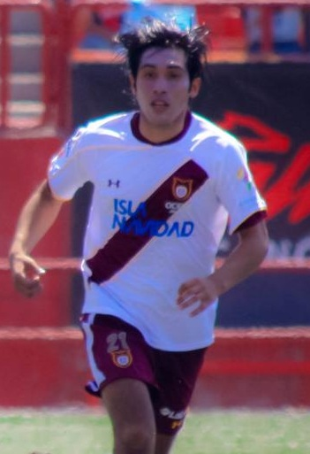 Mexican player Mario Pérez